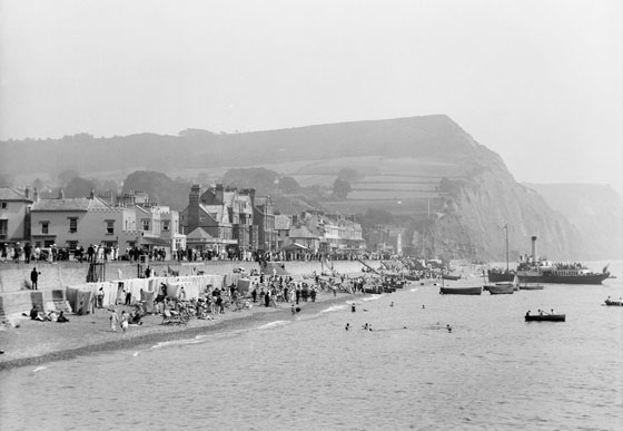 Reproduction ID: G3377 Maker: Francis Frith & Co Date: About 1924